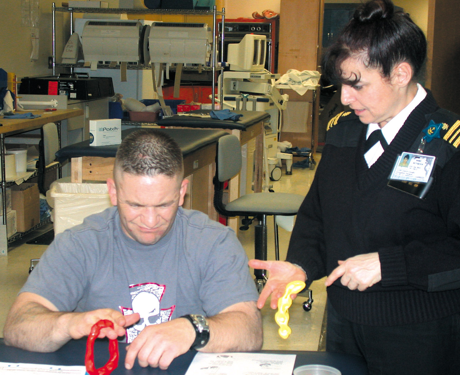 Bethesda, Md. (Apr. 3, 2003) -- In the Occupational Therapy (OT) outpatient clinic, Marine Sgt. Byron Bell builds up his grip strength by performing specialized exercises with putty. Lt. Cdr. Linda Coniglio, Medical Service Corp, OT Service Chief, assists Sgt. Bell through his exercises. U.S. Navy photo by Operations Specialist 2nd Class Wendy Kahn. (RELEASED)